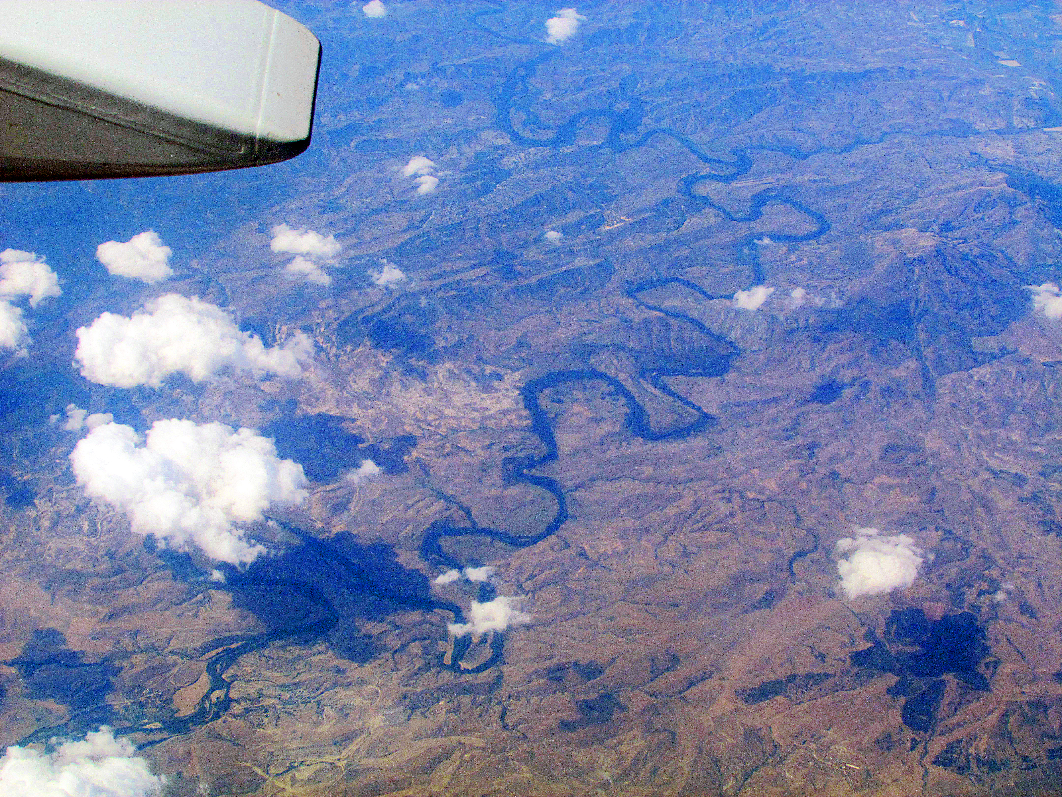 Bregalnica river from air